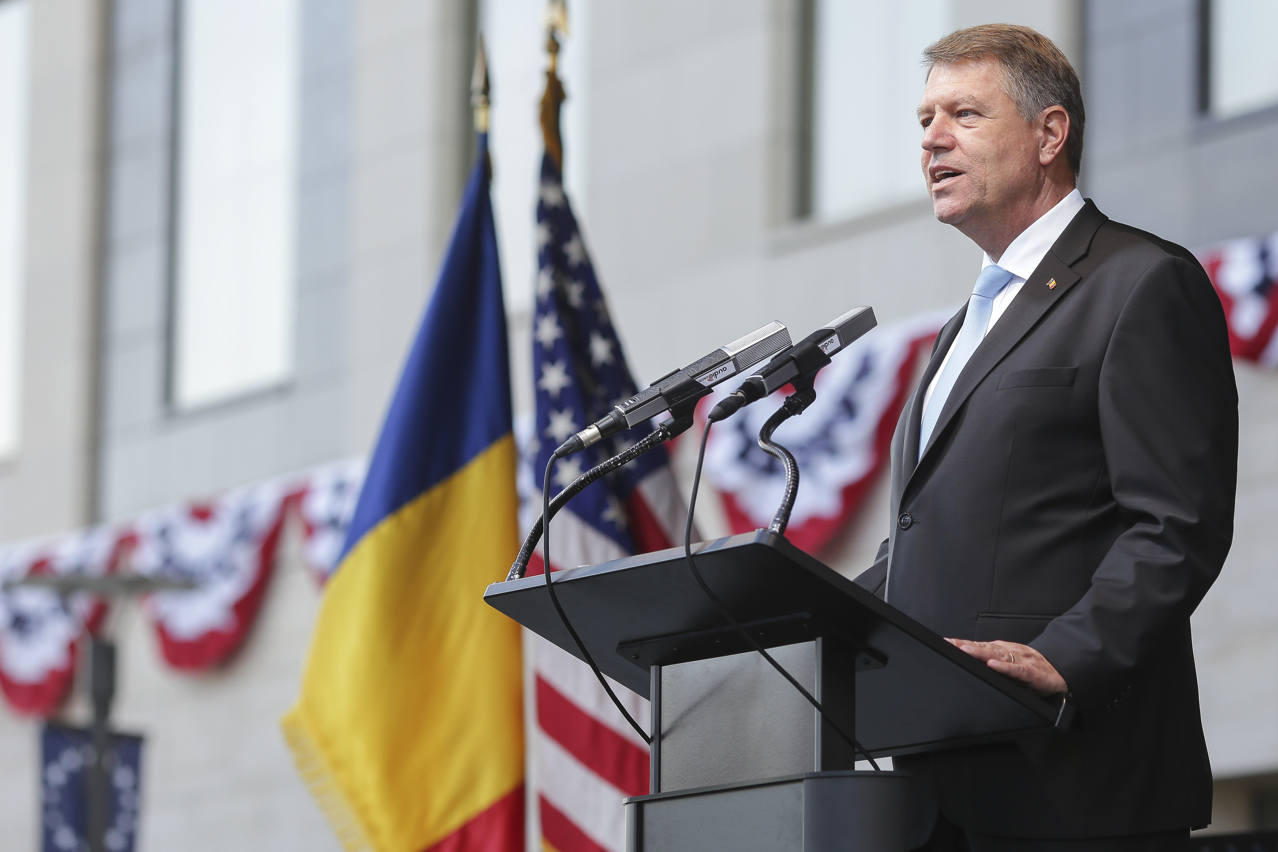 170507_4th_2017_280_Inquam_Photos_Octav_Ganea